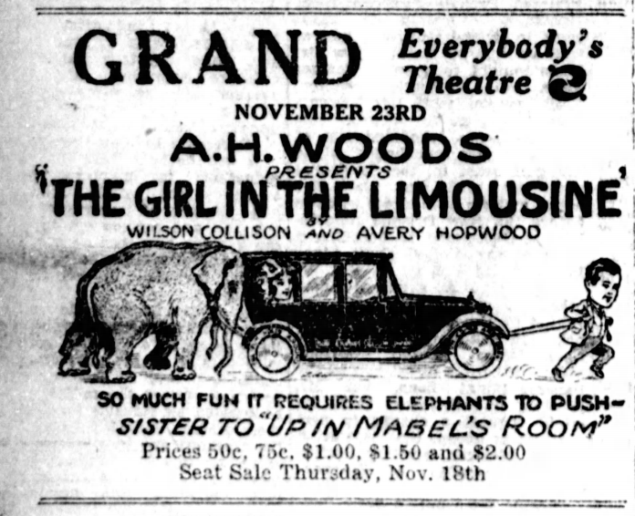 Advert for the play The Girl in the Limousine, published in The Jacksonville Daily Journal.